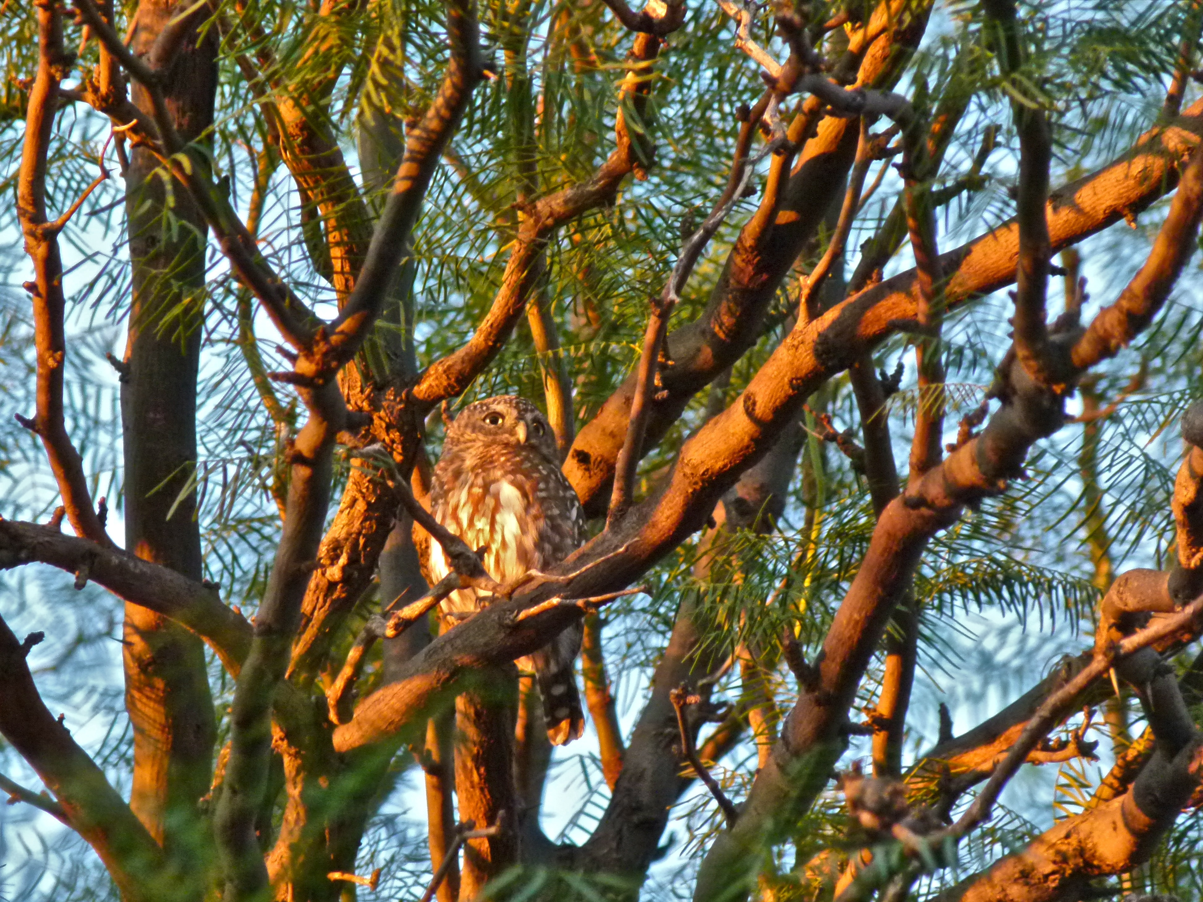 Nossob Camp, Kgalagadi Transfrontier Park, SOUTH AFRICA